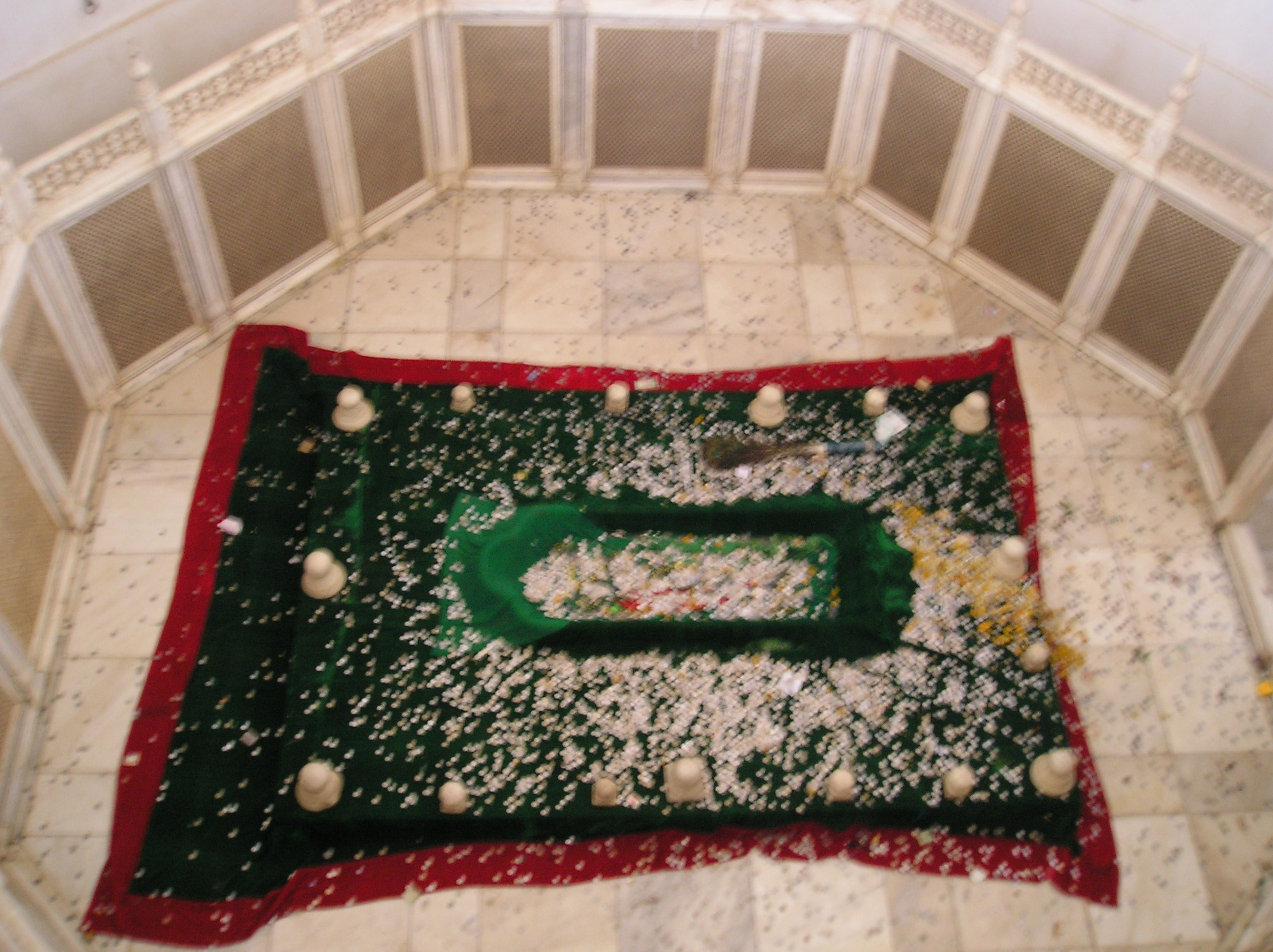 Bibi ki Maqbara